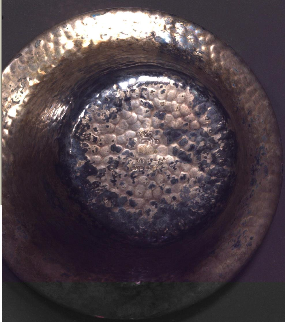 Underside of a hand-hammered silver dish, intended to illustrate basic silversmithing work. Manufactured by Taber and Tibbits of Wallingford, Connecticut, United States, it is an Arts and Crafts-style work